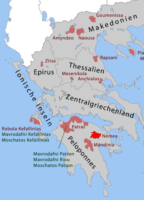 Greek wine regions with OPE (Green) and OPAP Appellations (red)